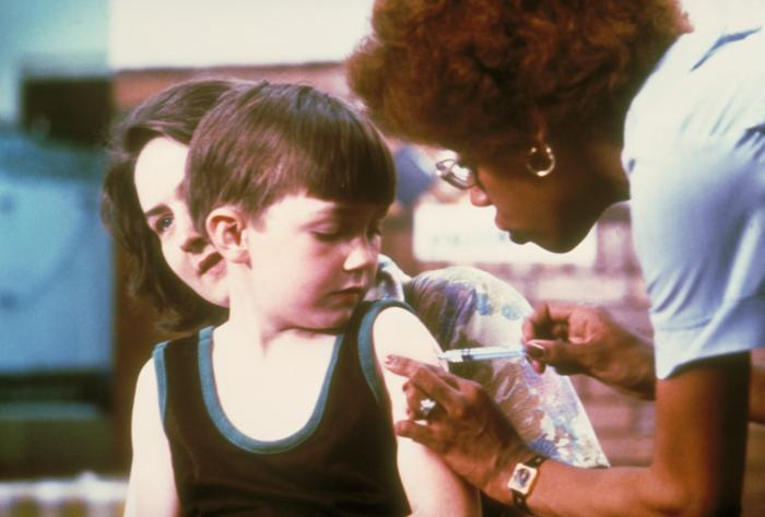 A nurse vaccinating a child.